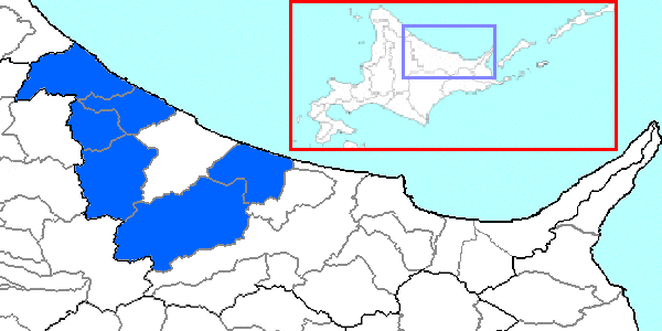 The location of Monbetsu District in Abashiri Subprefecture, Hokkaido Prefecture, Japan.